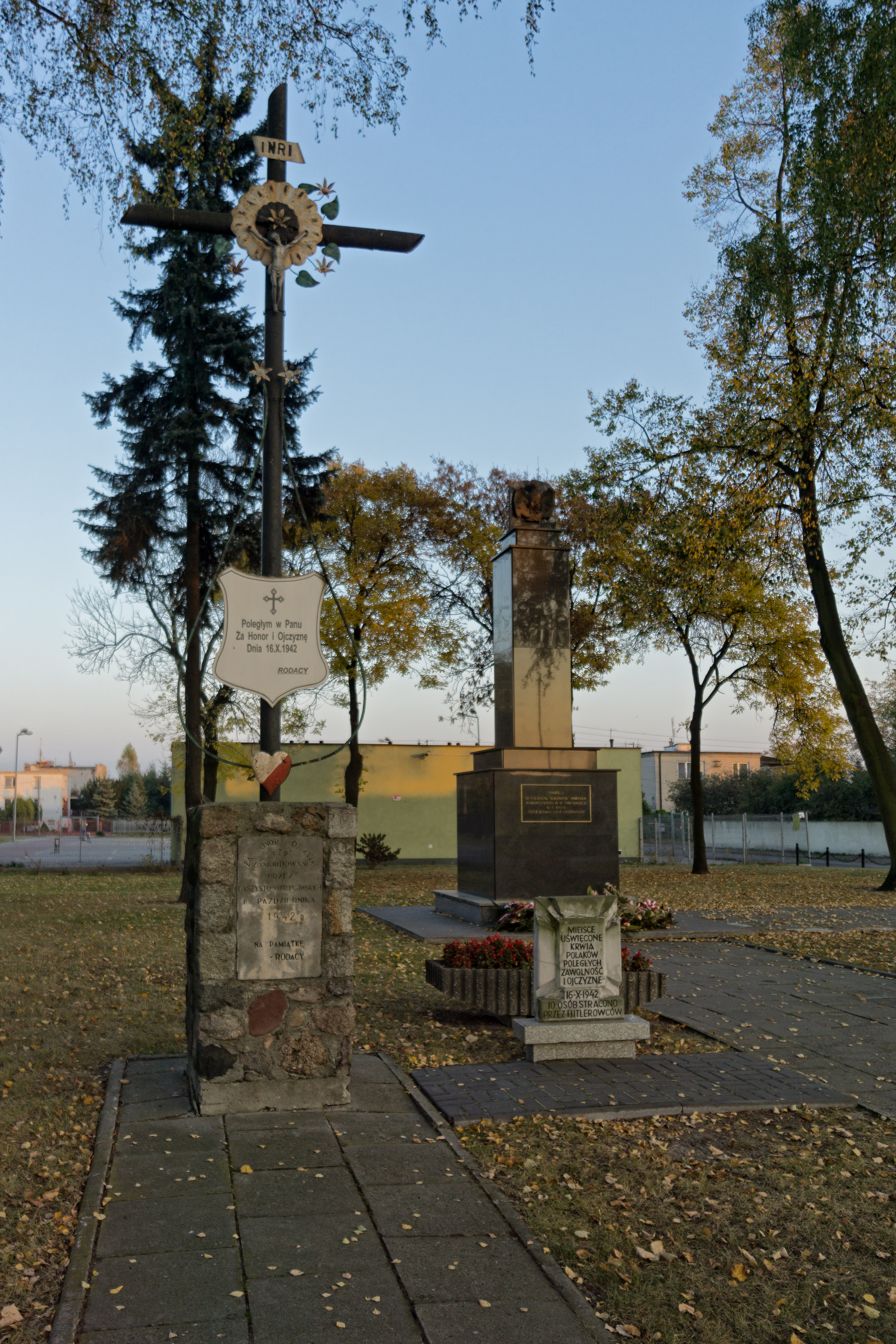 Plaque at Pilsudskiego street in Marki commemorating a 10 Poles which were hanged there by Nazi Germans (16 October 1942)